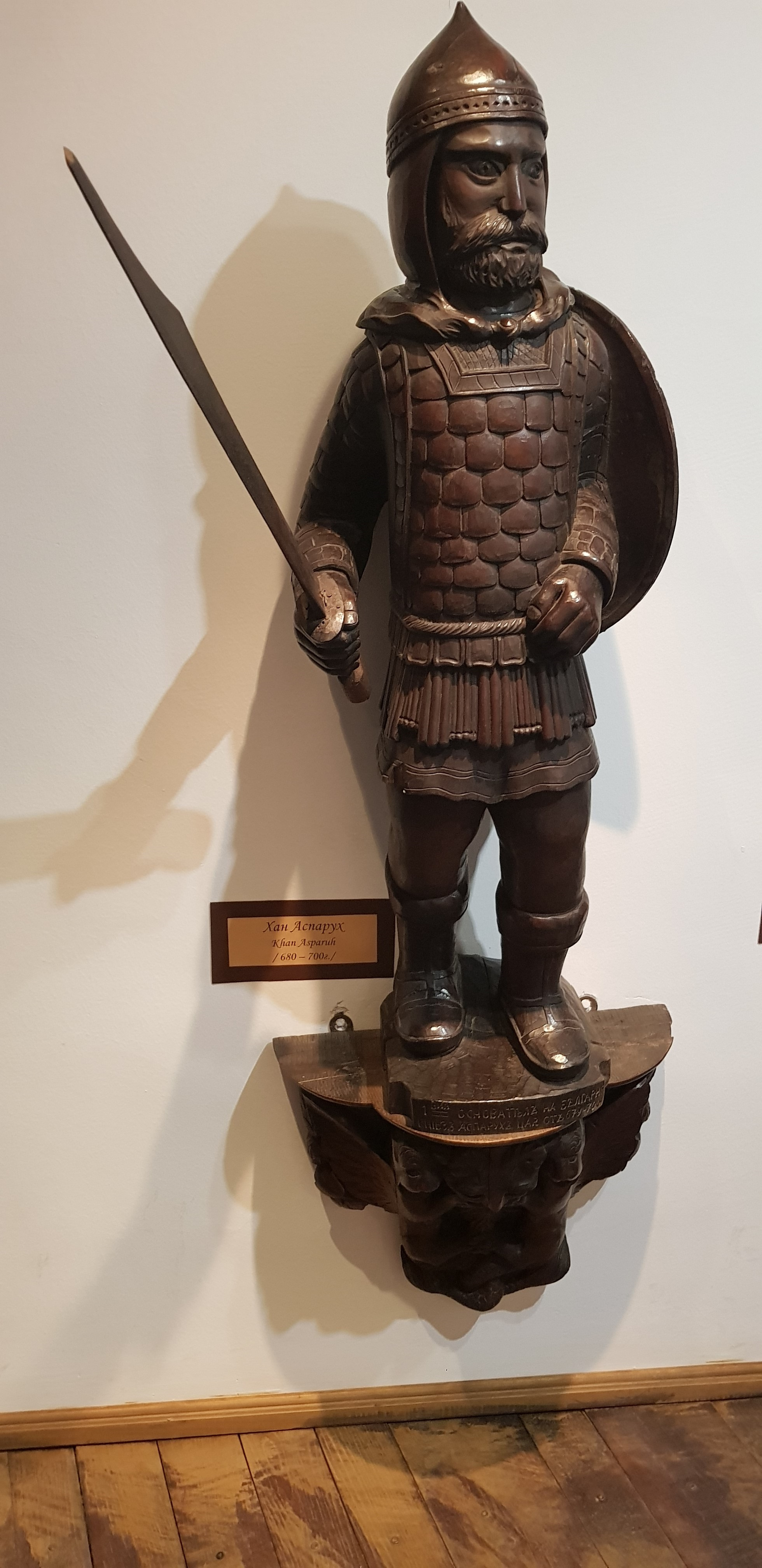 Wooden statue of Asparukh of Bulgaria in Tryavna